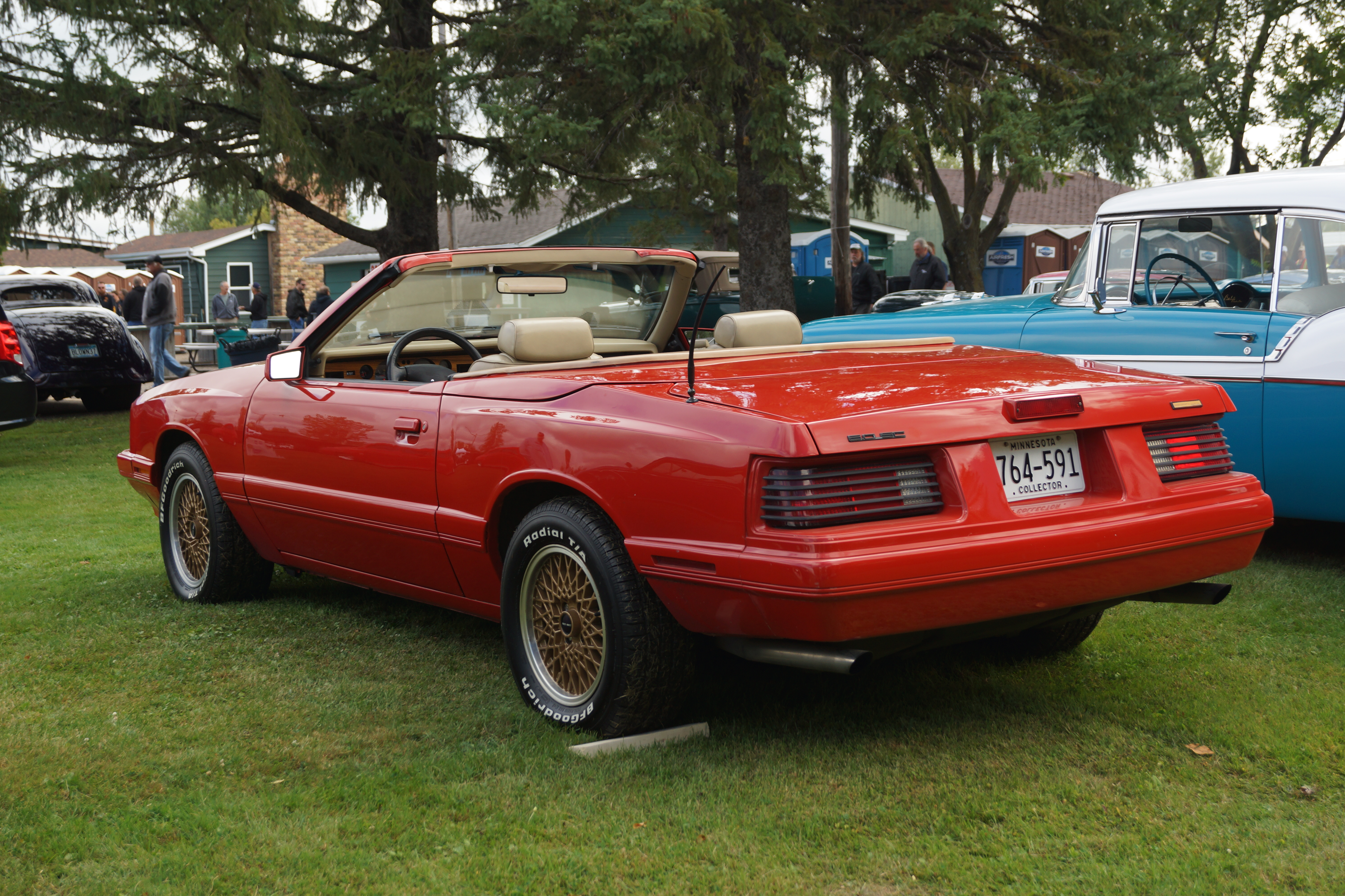 30th Annual Pig Roast & Car Show Northern Lights Car Club Blacksmith Lounge Hugo, Minnesota September 2017 ******** Click here for more car pictures at my Flickr site. Or here for my Car Crazy Tumblr site. Or on Twitter @DVS1mn.